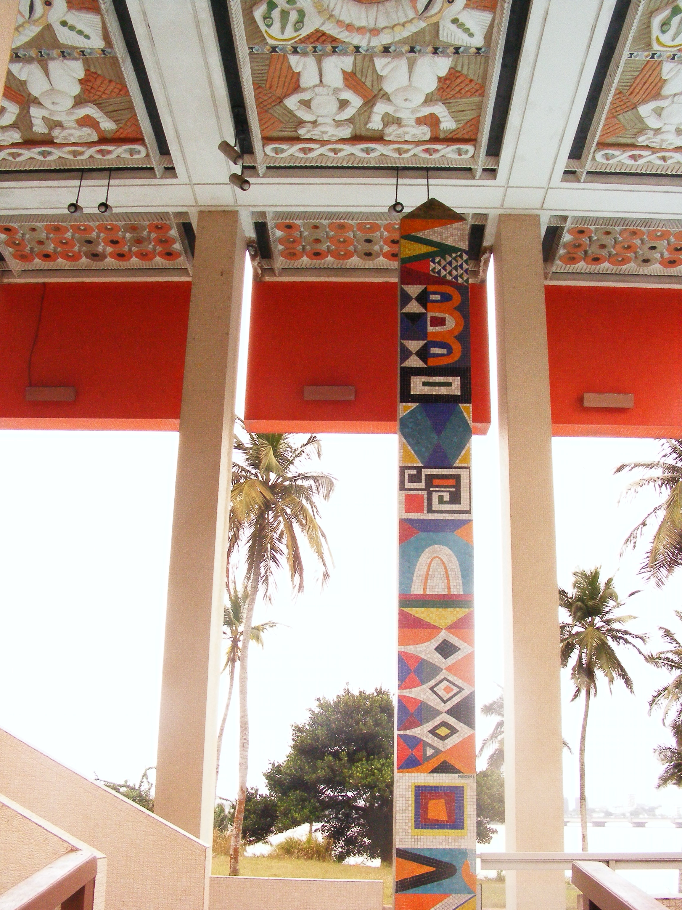 Outside decoration of the Hôtel Ivoire, prior to refurbishment.